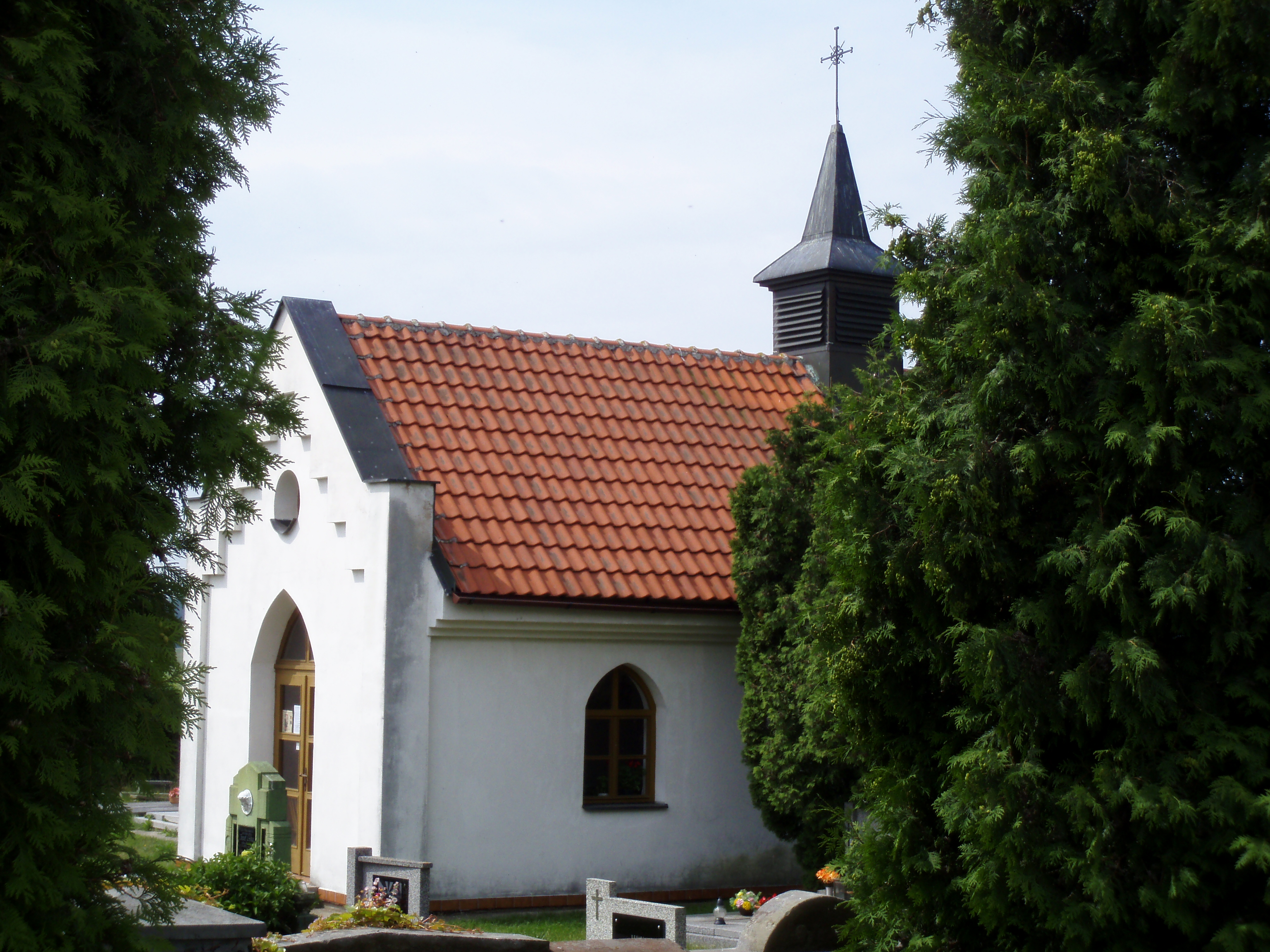 Cemetery chapel in Vysoká nad Labem (District of Hradec Králové)